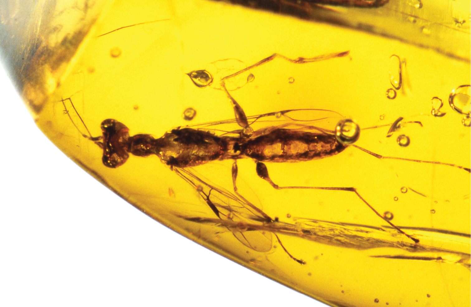 Dryinus grimaldii. Female specimen in dorsal view (in GPJC, No. H-10-100). Length 6.3 mm.